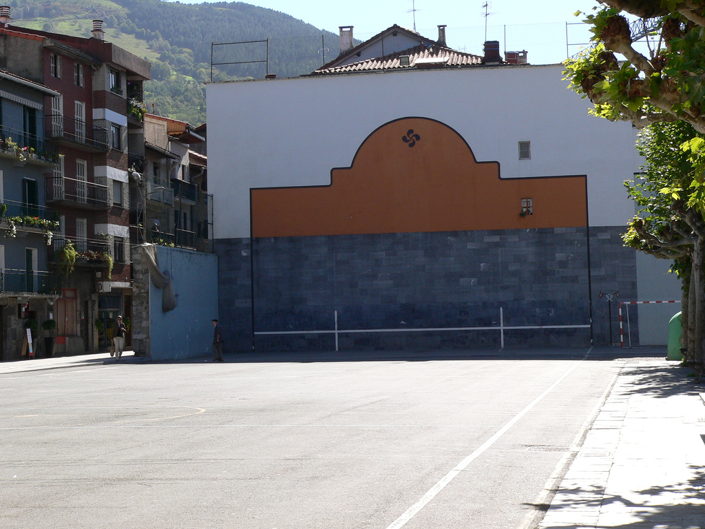 "Plaza de Rebote" in Villabona (Guipúzcoa, Spain).